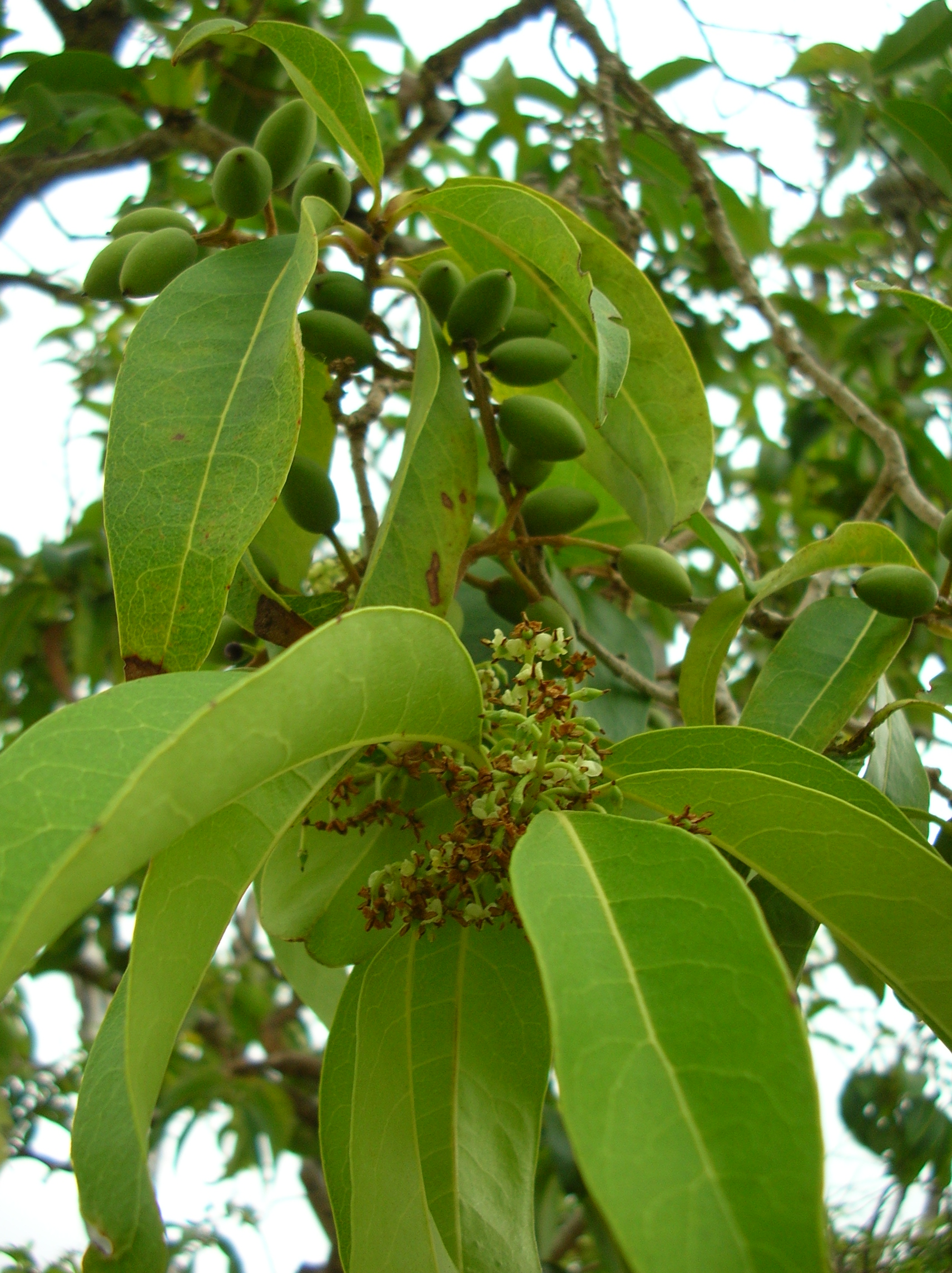 Nestegis sandwicensis (flowers). Location: Maui, Auwahi